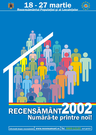 Publicity poster for the 2002 Romanian census